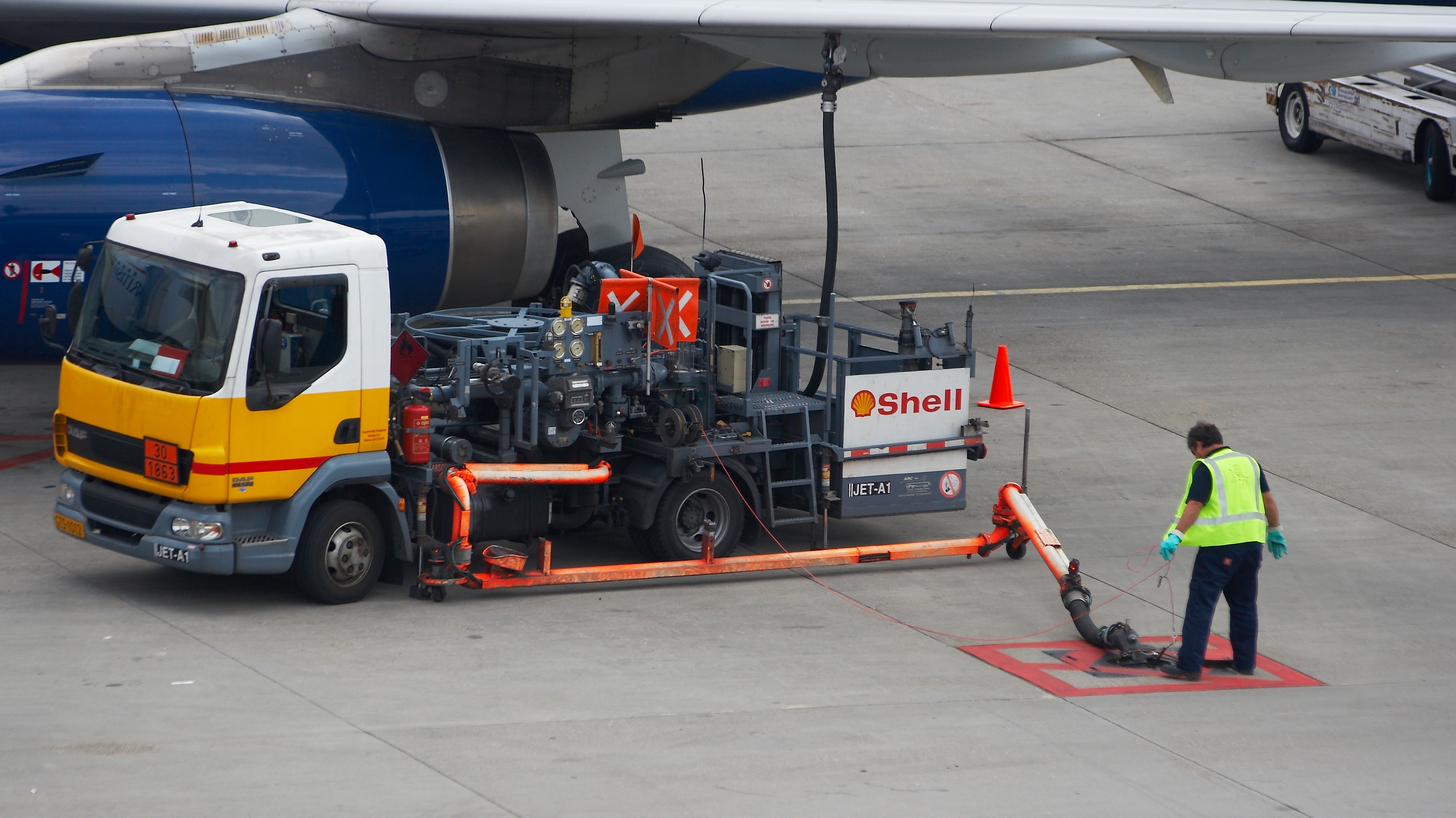 Aircraft: Airbus A321-231 Airline: British Airways Registration/CN: G-EUXH (cn 2363) Place: Amsterdam - Schiphol (AMS / EHAM)